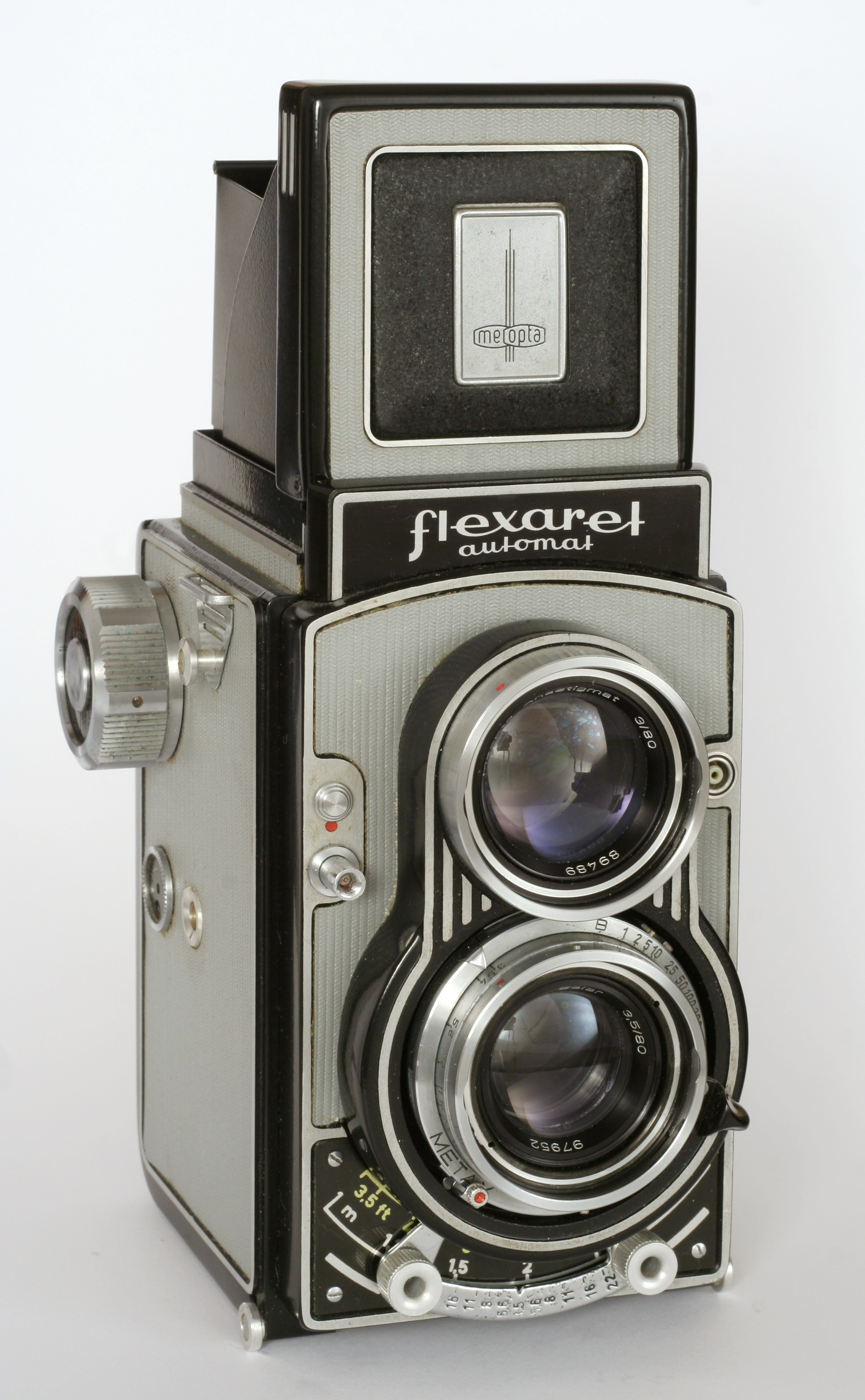 Antique Camera Flexaret VI